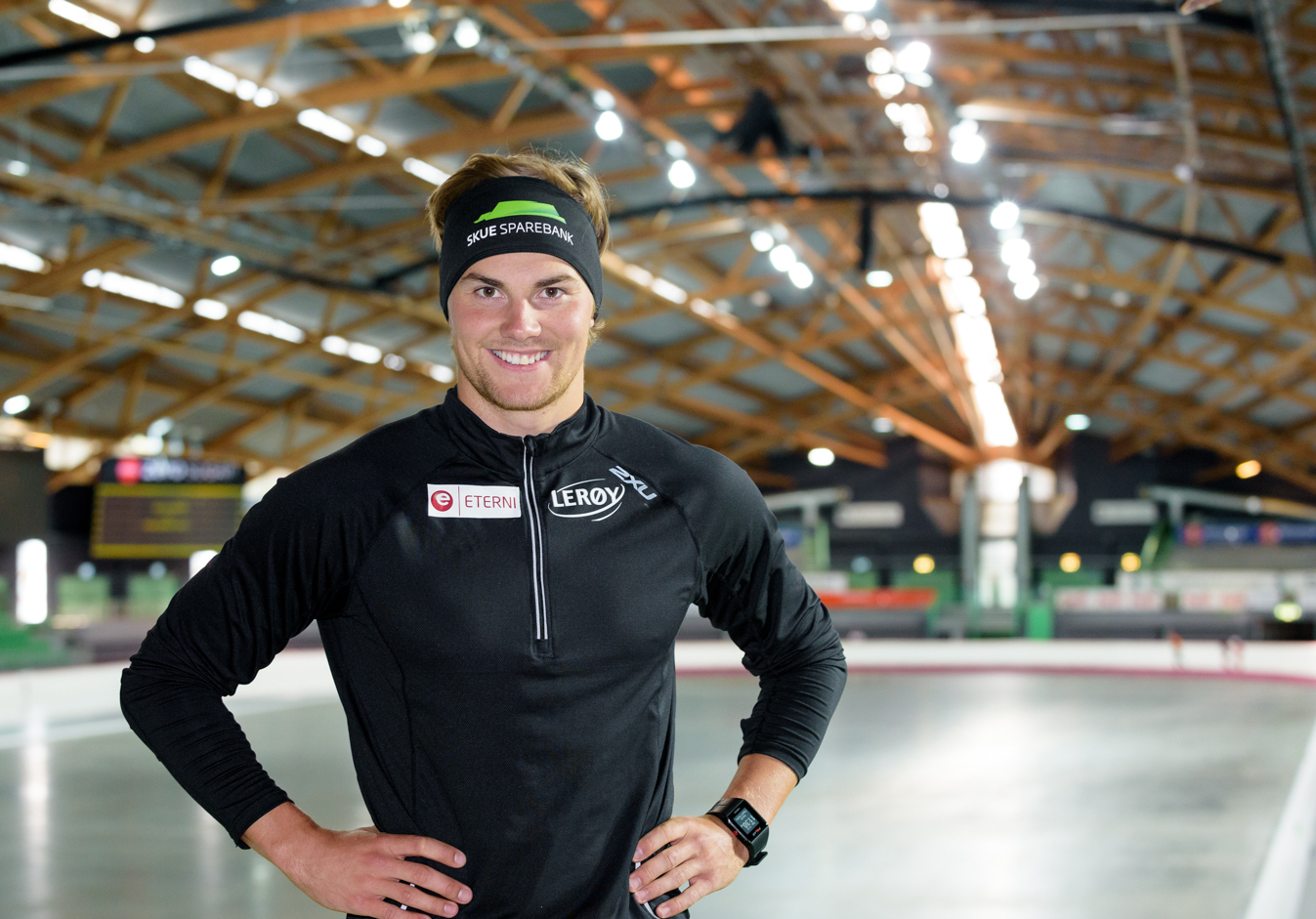 Photo of Henrik Fagerli Rukke inside the Viking ship, Hamar, NorwayNorsk bokmål: Foto av Henrik i Vikingskipet